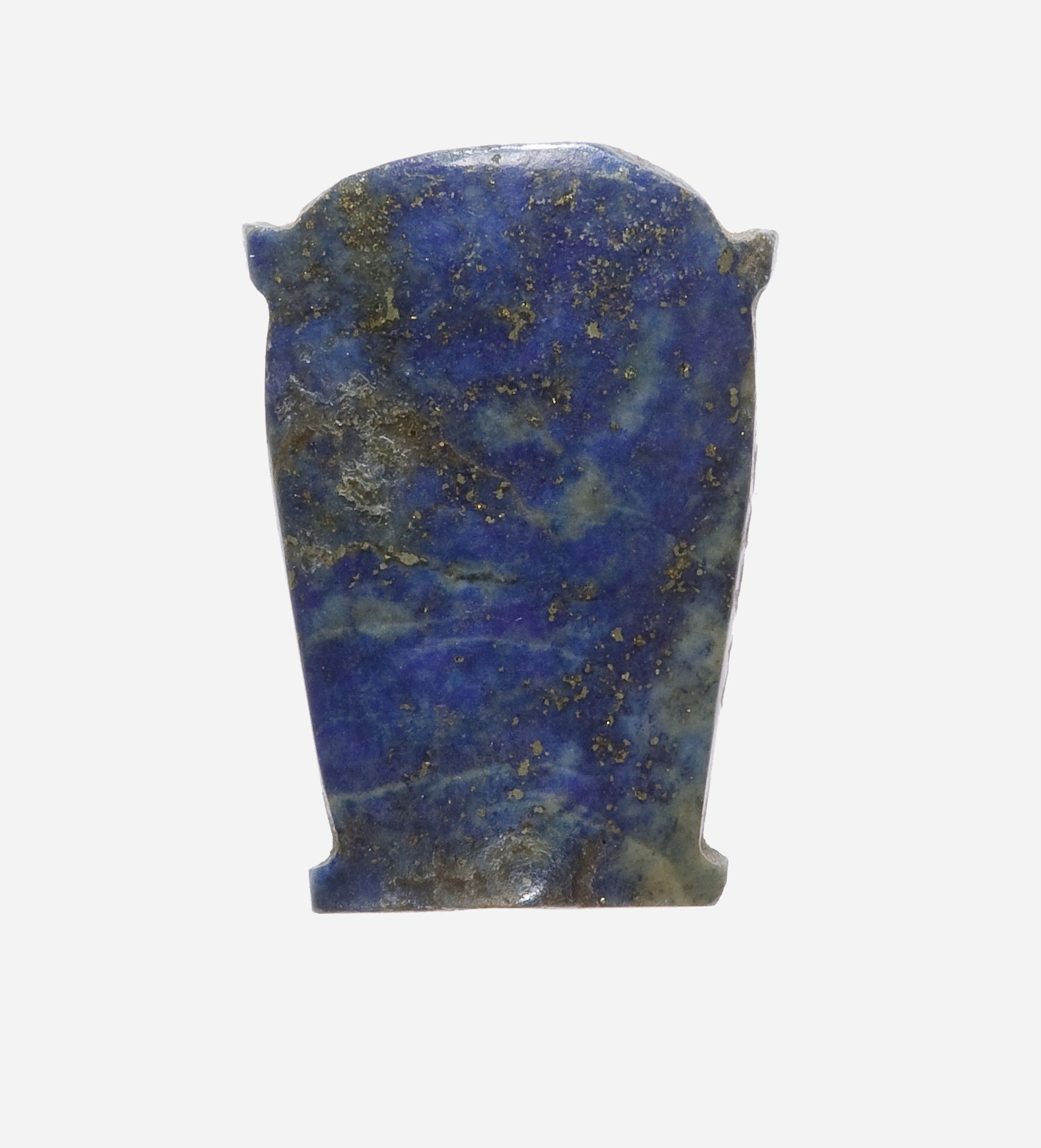 Amulet pendant